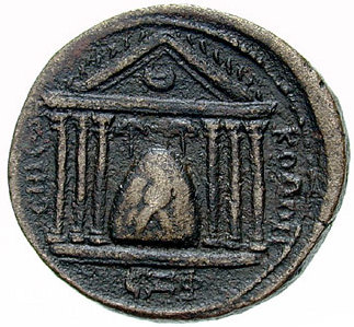 Derivative work: cropped from File:Bronze-Uranius Antoninus-Elagabal stone-SGI 4414.jpg